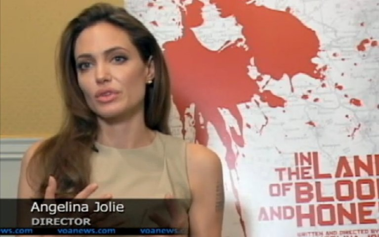 Angelina Jolie speaks to the Voice of America about the film "In The Land of Blood and Honey"